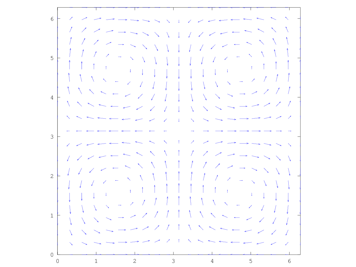 Vector plot of the Taylor-Green vortex created with octave